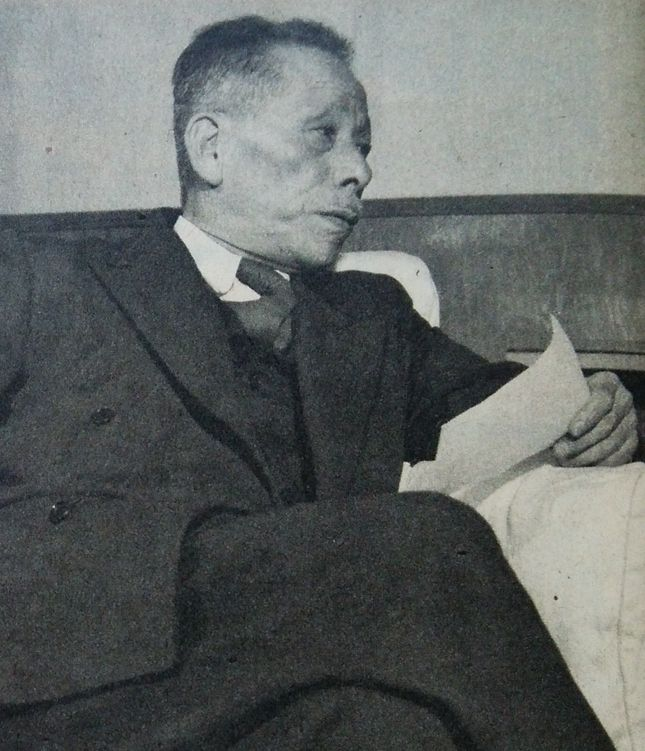 Masuichi Midoro (美土路 昌一 Midoro Masuichi)